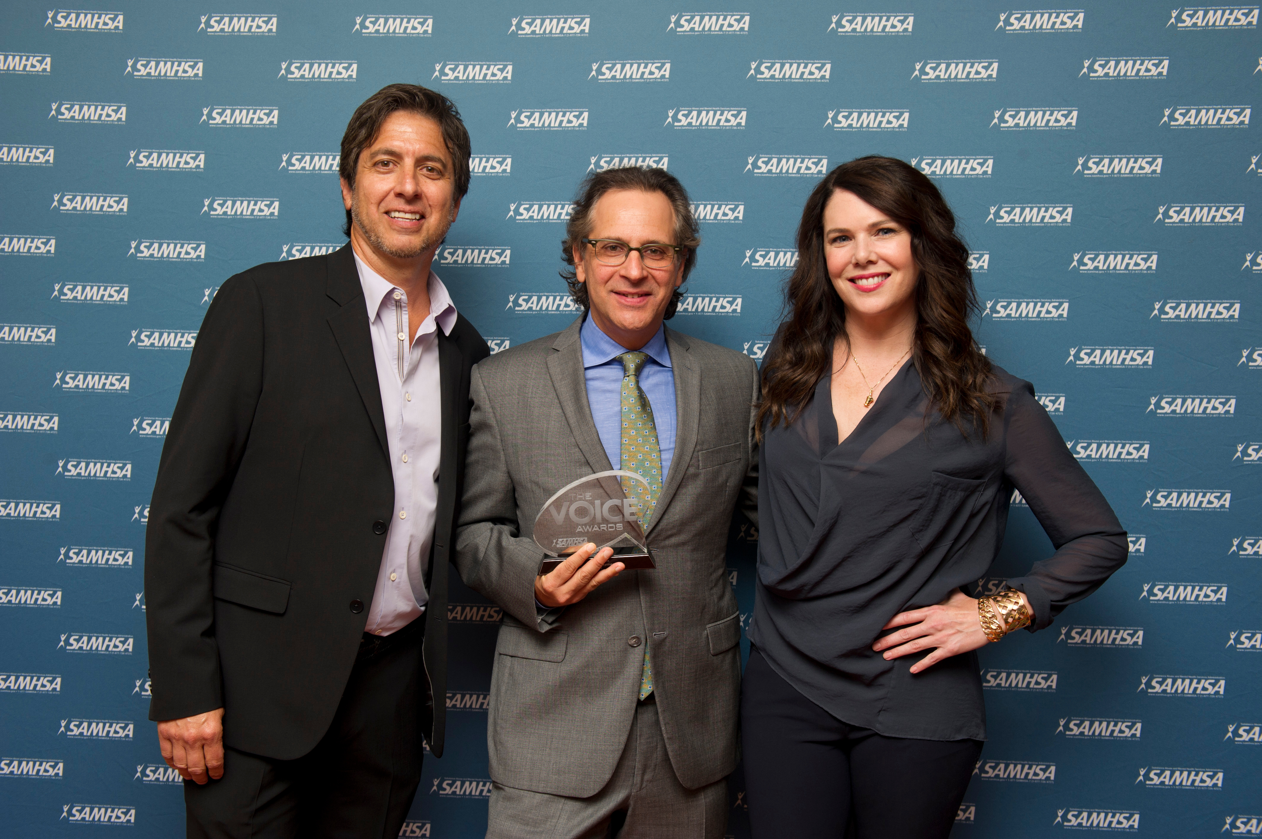 Career Achievement Award winner Jason Katims and award presenters Lauren Graham and Ray Romano pose for a photo during the 2014 Voice Awards held on August 13 at Royce Hall on the campus of UCLA.